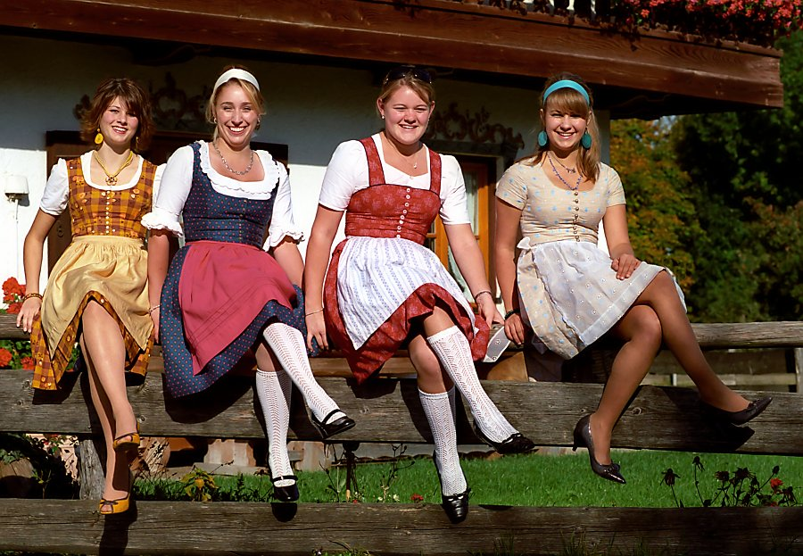 Dirndls from the ’70s